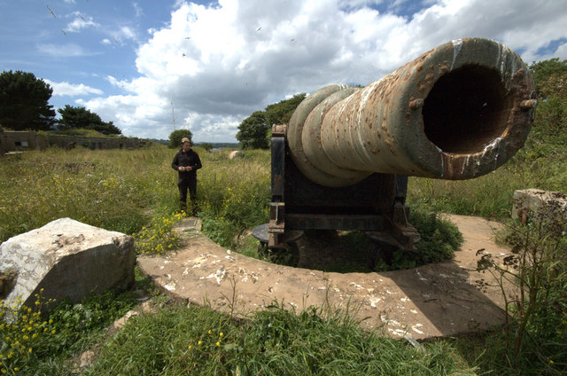 A 25 Ton gun This gun cannot be seen at sea level from the adjacent square, you have to land and tour the island to achieve this.